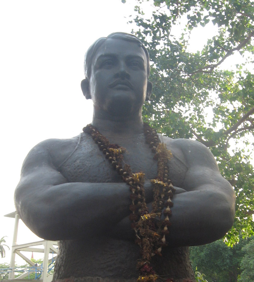 The bust of Gobar Guha, on the north eastern corner of Azad Hind Bagh, also known as Hedua Park, in Kolkata. The bust was inaugurated by K V Raghunath Reddy, the then Governor of West Bengal on 1st September 1996, on the occasion of the birth anniversary of Gobar Goho.